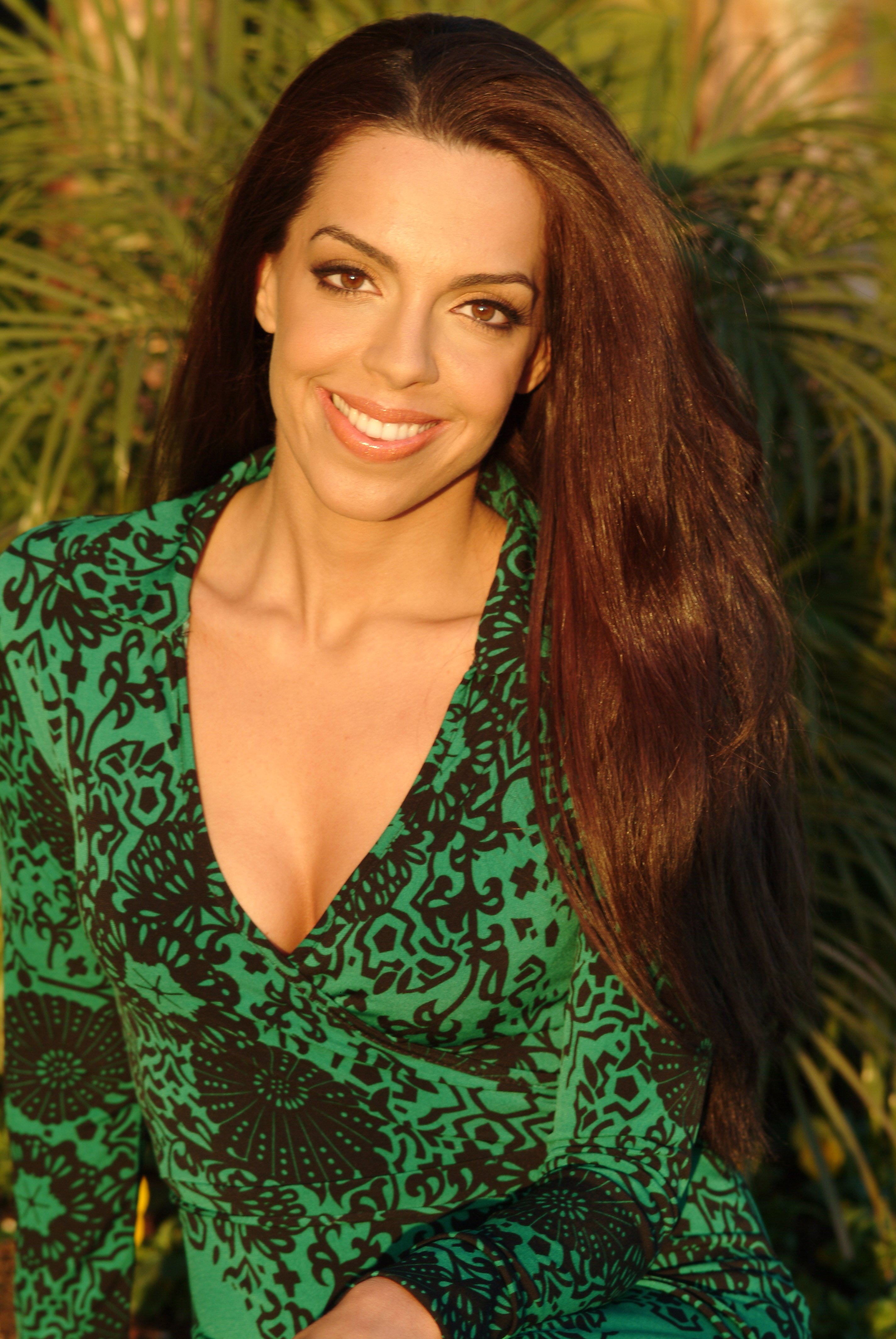 Lisa Daftari - Journalist/Commentator & Middle East Expert